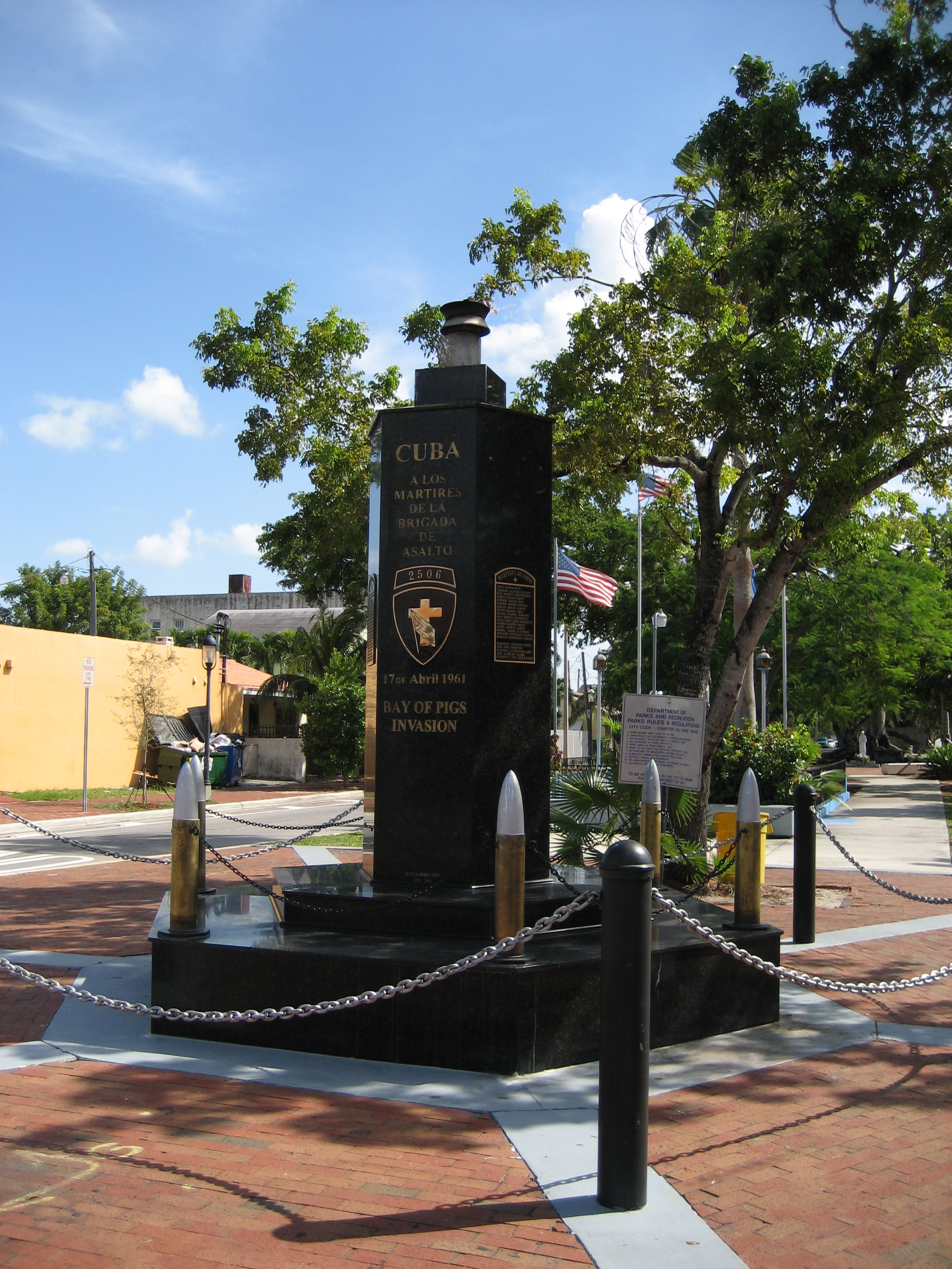 Little Havana district, Miami, Florida. Bay of Pigs monument.